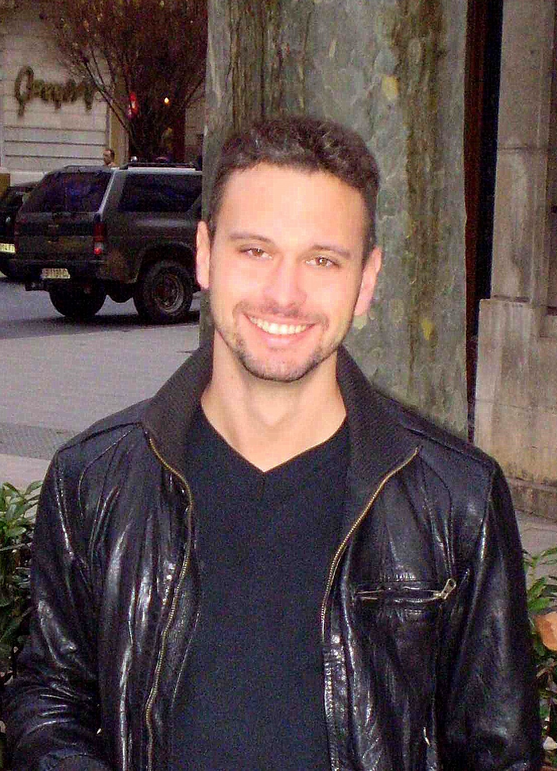 Stefan Aretz, met in Spain, Mallorca